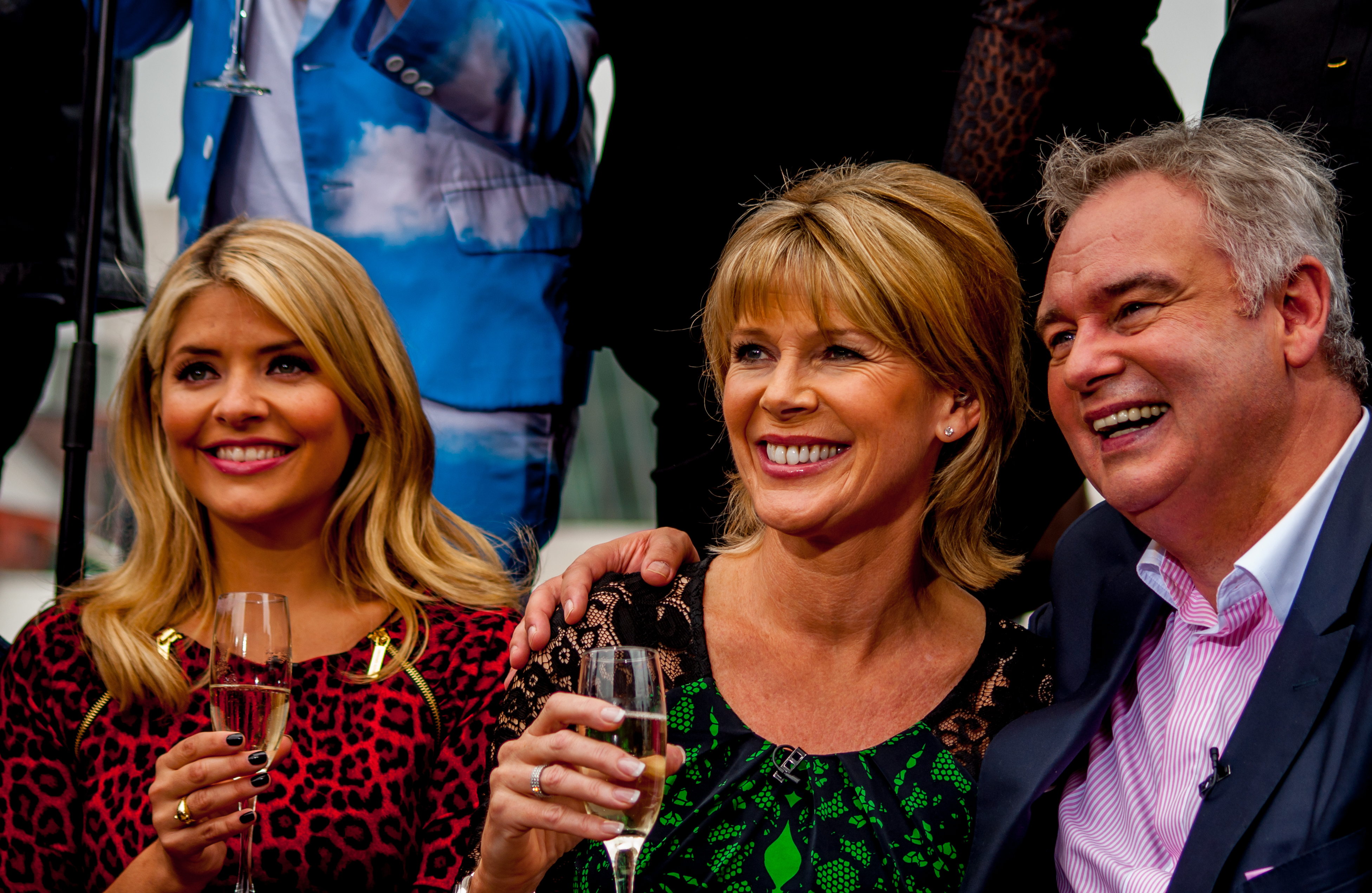 Television personalities from left-right, Holly Willoughby, Ruth Langsford and Eamon Holmes.